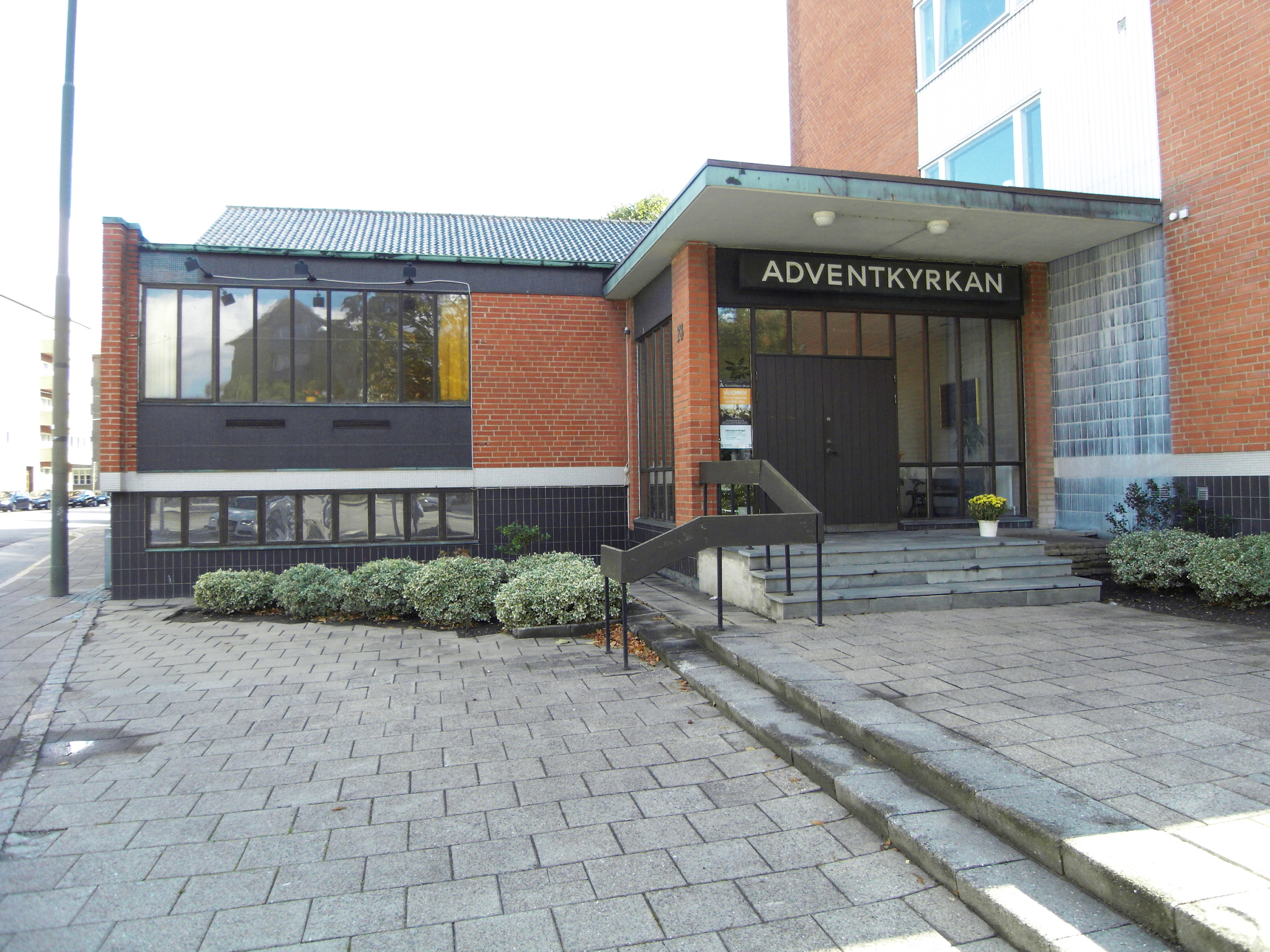 The Advent Church in the city of Malmo.